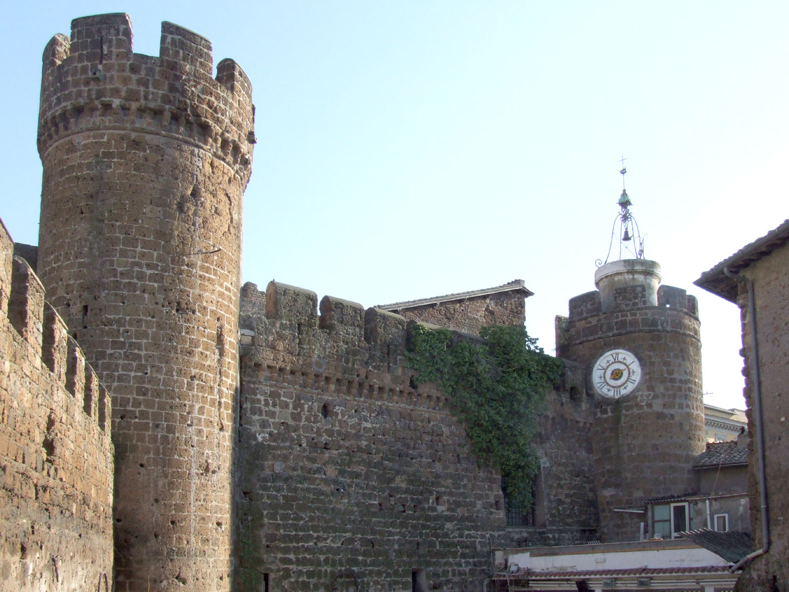 Cerveteri, Province of Rome, Italy, Palazzo Ruspoli